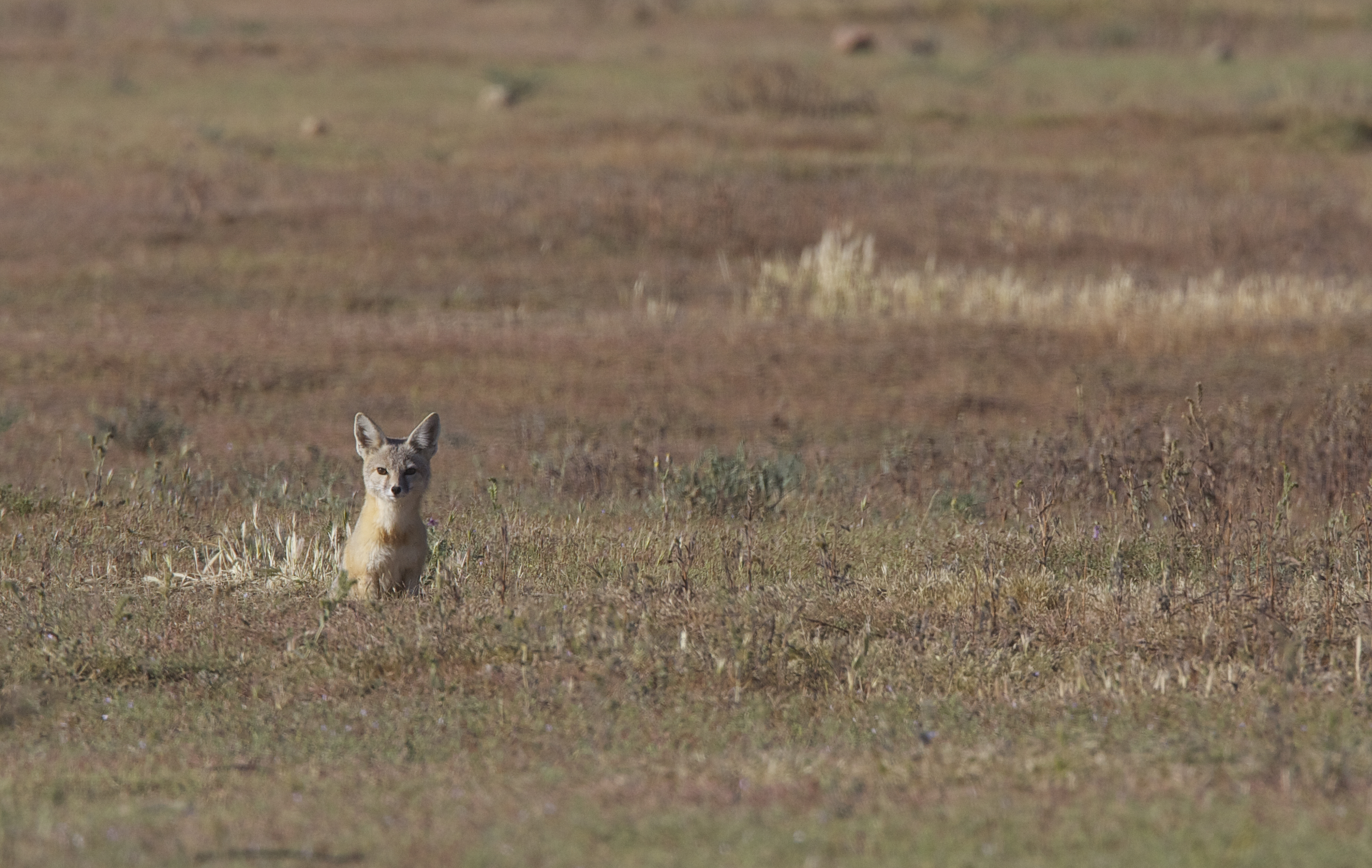 Formerly very common up and down the San Joaquin Valley, the SJKF now has a very limited distribution. Carrizo Plains National Monument is one of the few places left where you can find this species with relative ease...